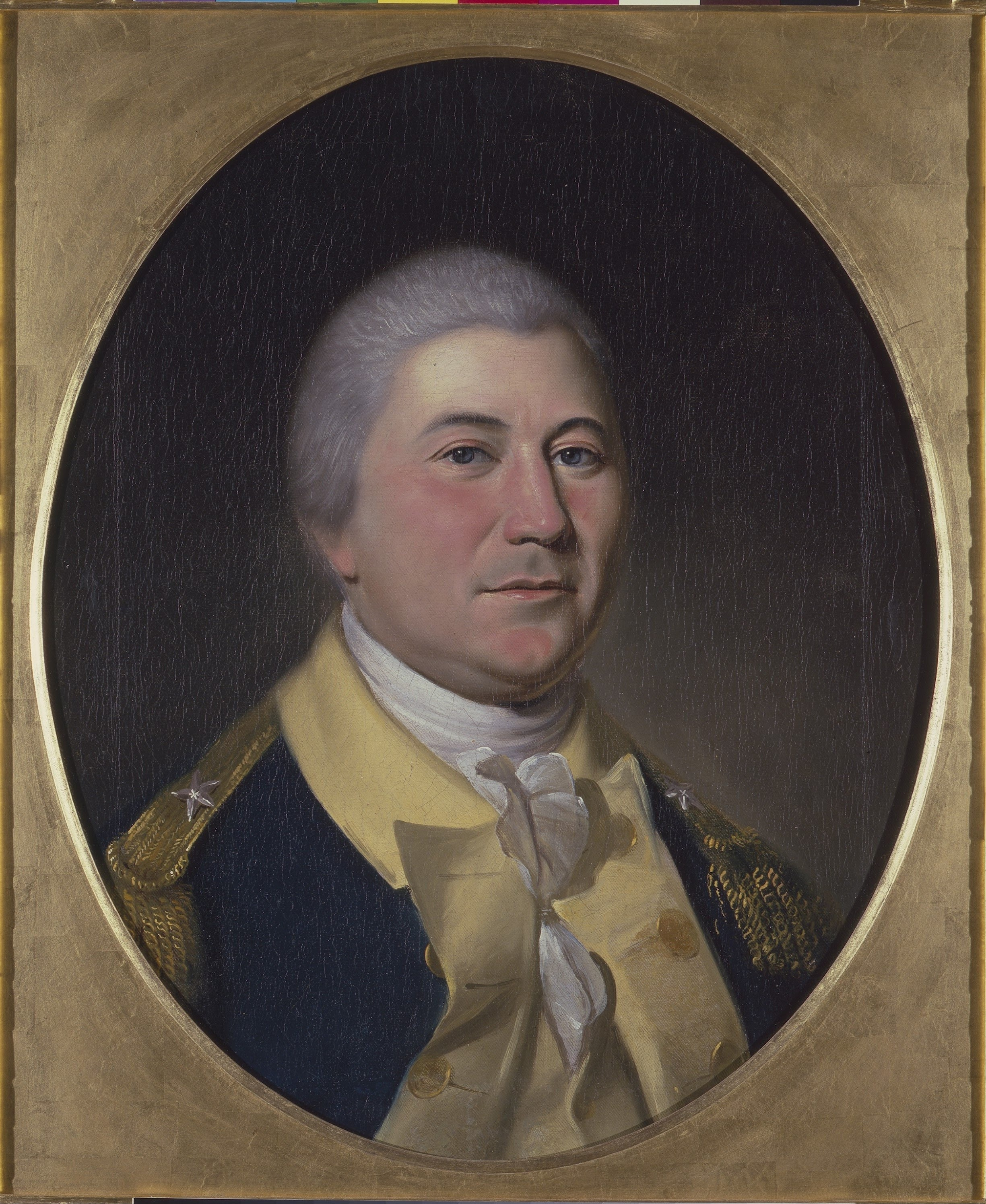 James Mitchell Varnum 23 x 20 in (58.4 x 50.8 cm) Oil on canvas Museum portrait of James Mitchell Varnum (1748-1789) by Charles Willson Peale Peale created the painting 15 years after the death of Varnum possibly from a miniature of his own creation Painting owned by the Independence National Historical Park